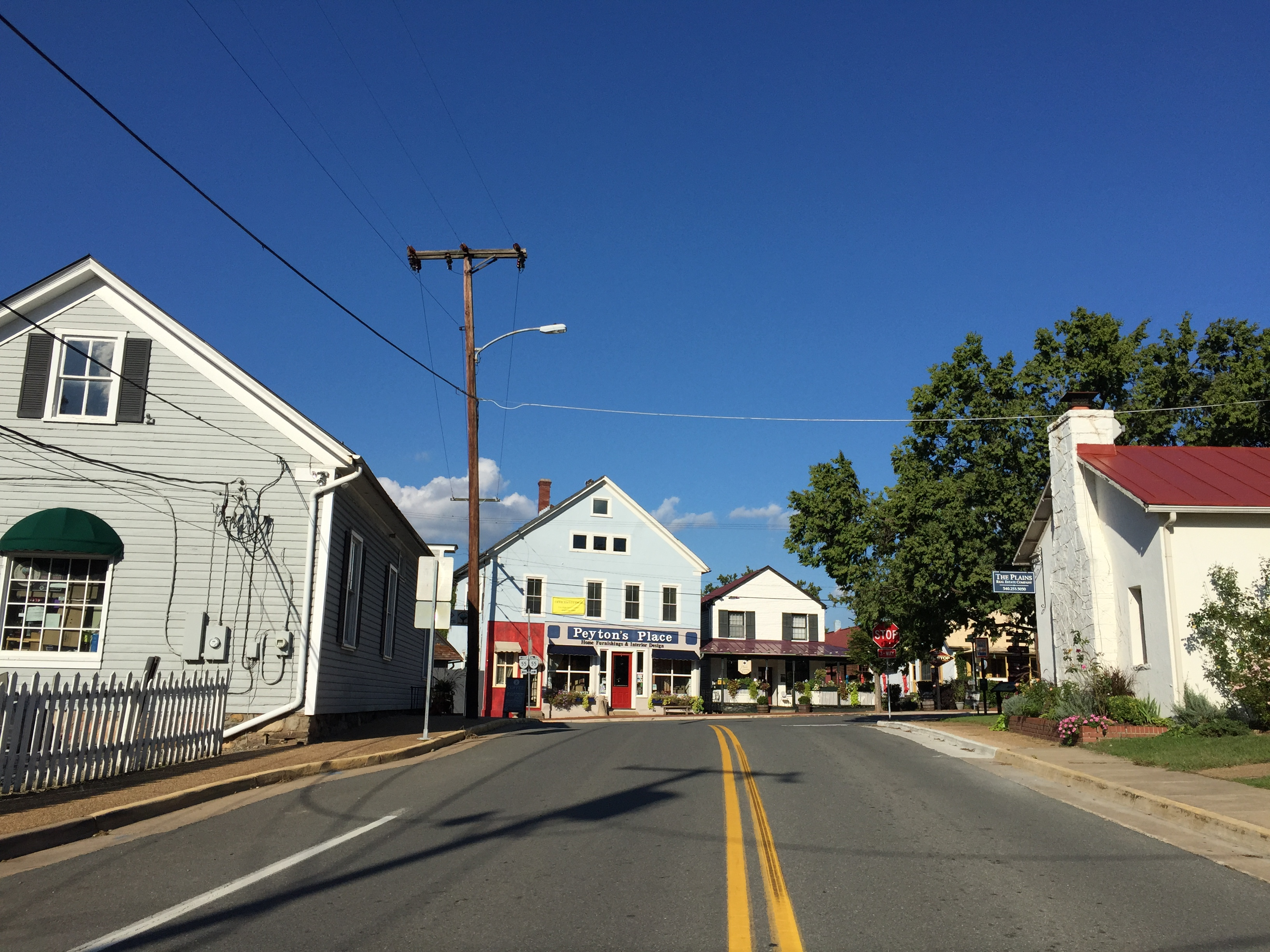 View north along Virginia State Route 245 (Fauquier Avenue) at Virginia State Route 55 (Main Street) in The Plains, Fauquier County, Virginia